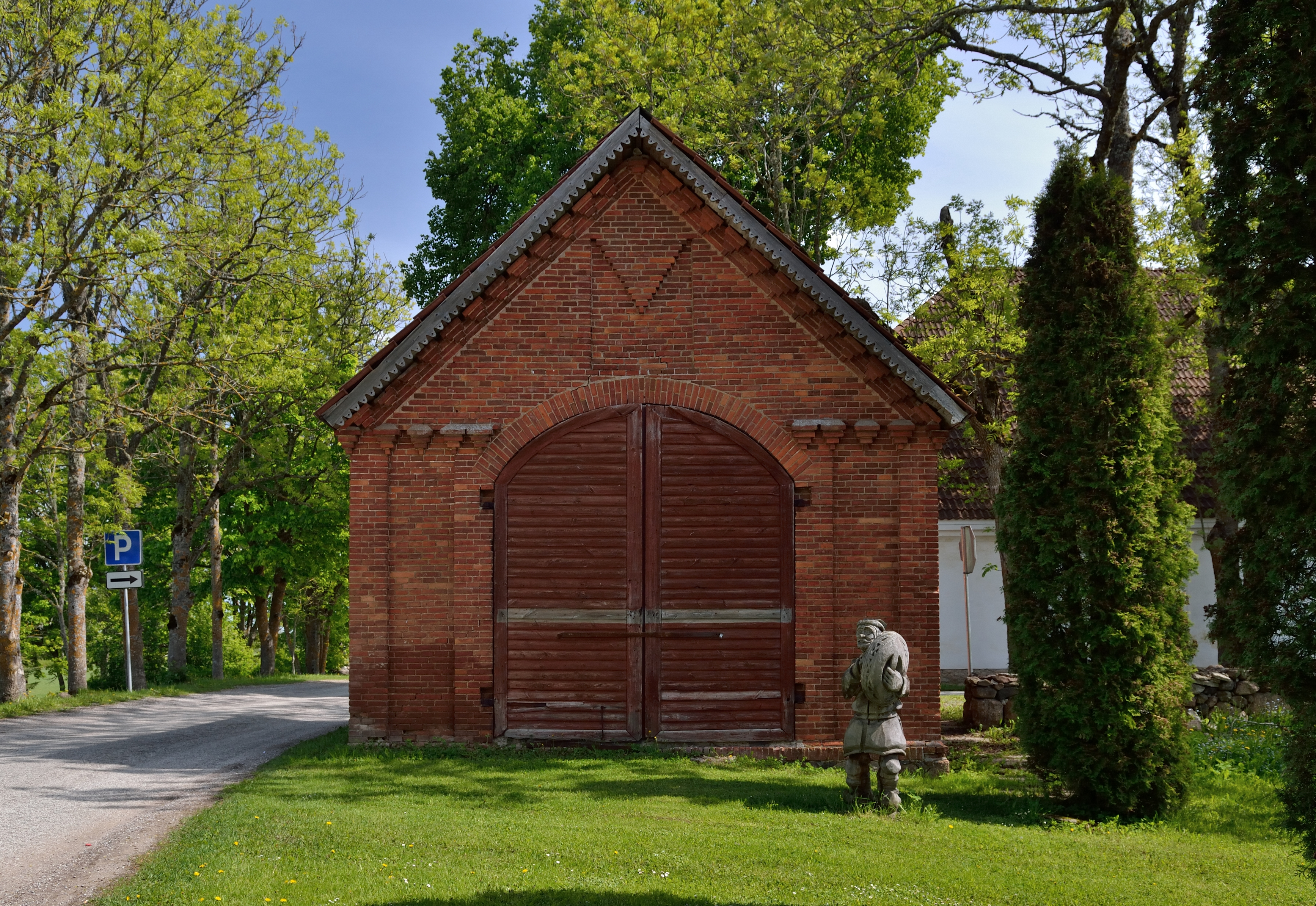 Sagadi manor weighing house